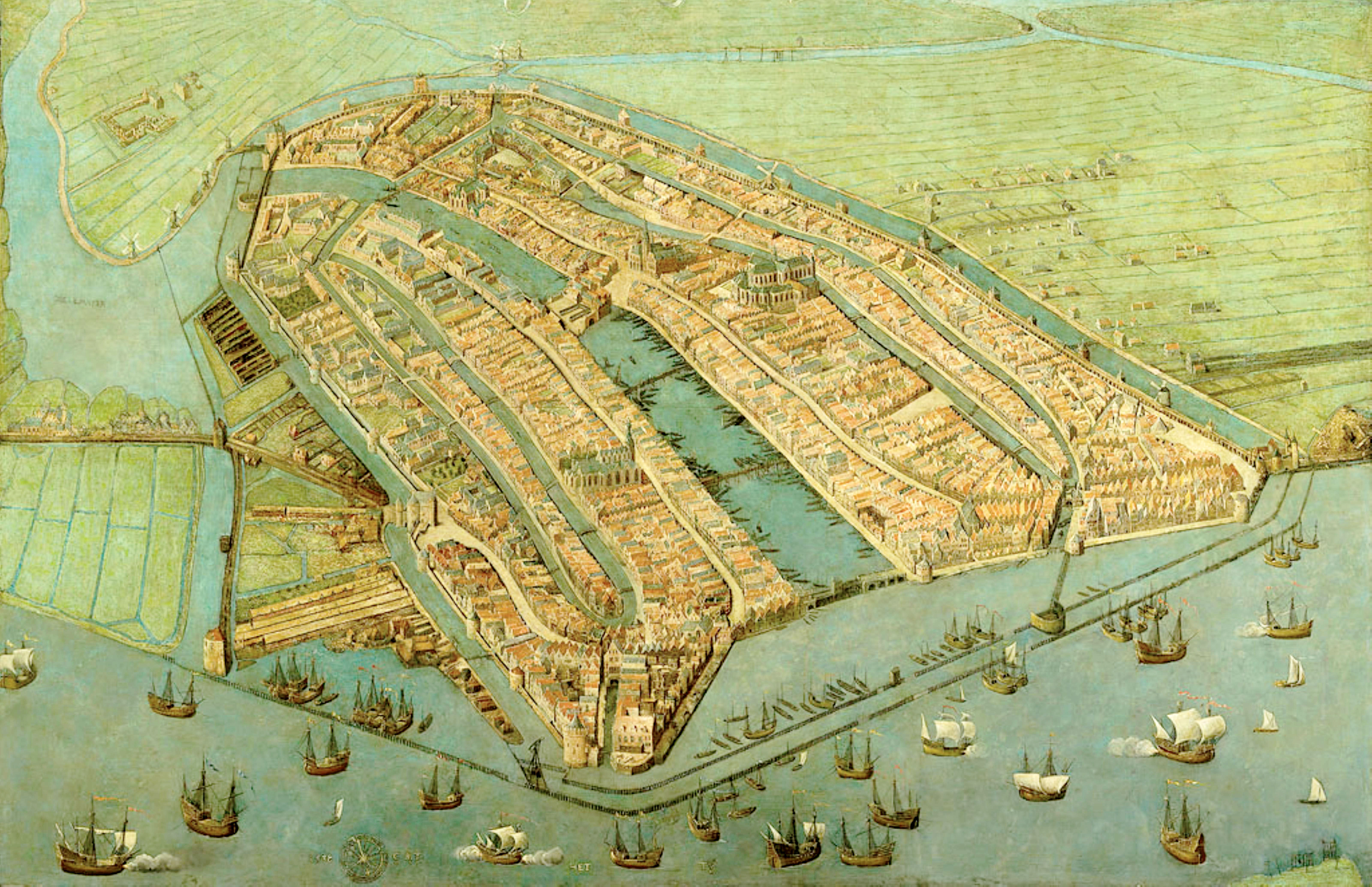 Oldest surviving map of Amsterdam, showing the city's finished medieval walls, towers and gates. Like in most old maps of Amsterdam the city is shown from the IJ, so that the view is directed to the south rather than the north.